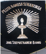 Standard of Jong Sumatranen Bond